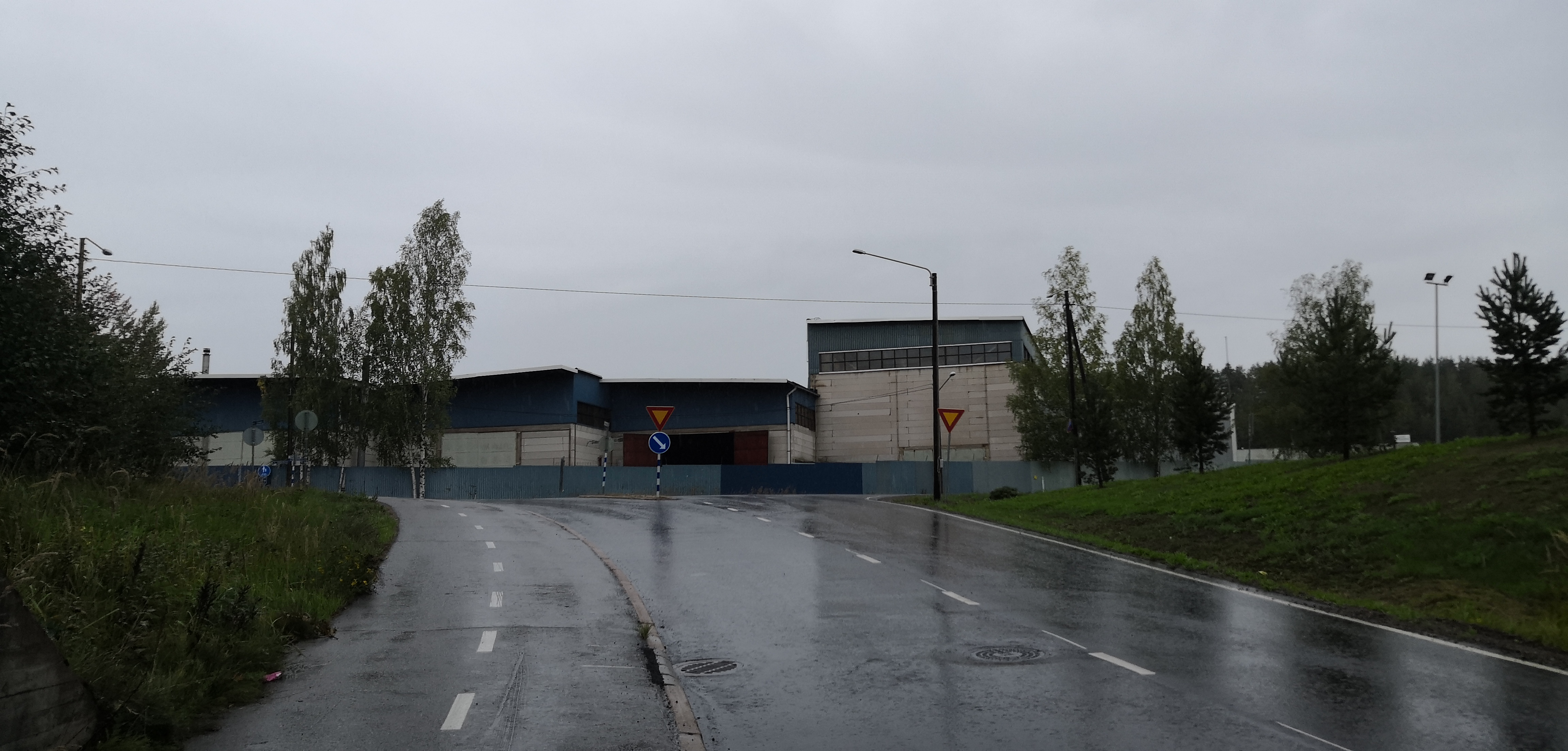 Tehontien ja Uudismaankadun risteys Teholassa